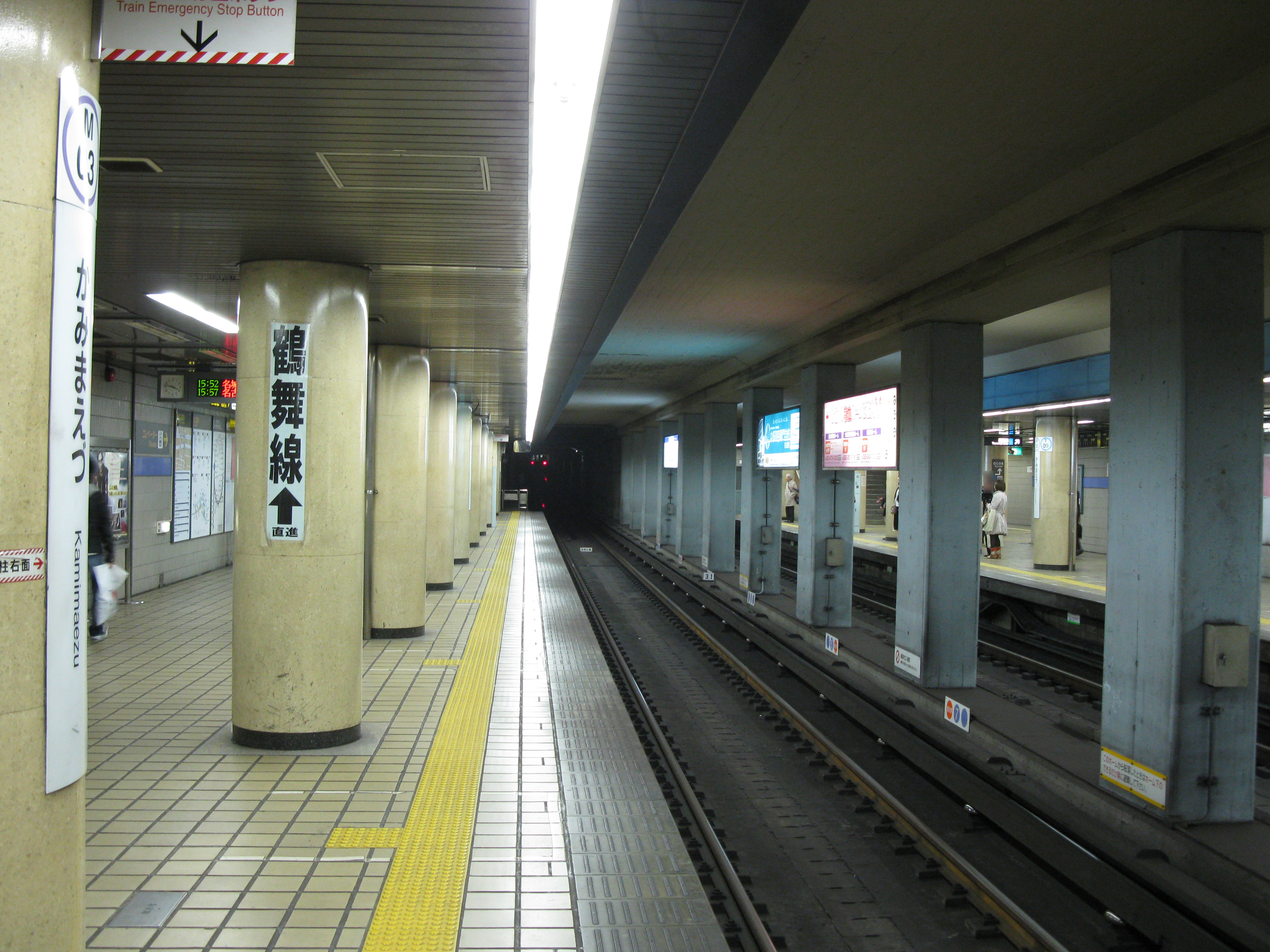 Kamimaezu Station platform (Nagoya Municipal Subway Meijō Line)